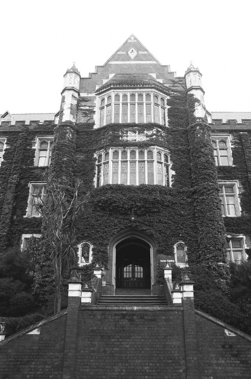 Hunter building east entrance, Victoria University of Wellington, Wellington, New Zealand. New Zealand Historic Places Trust Register number: 221.